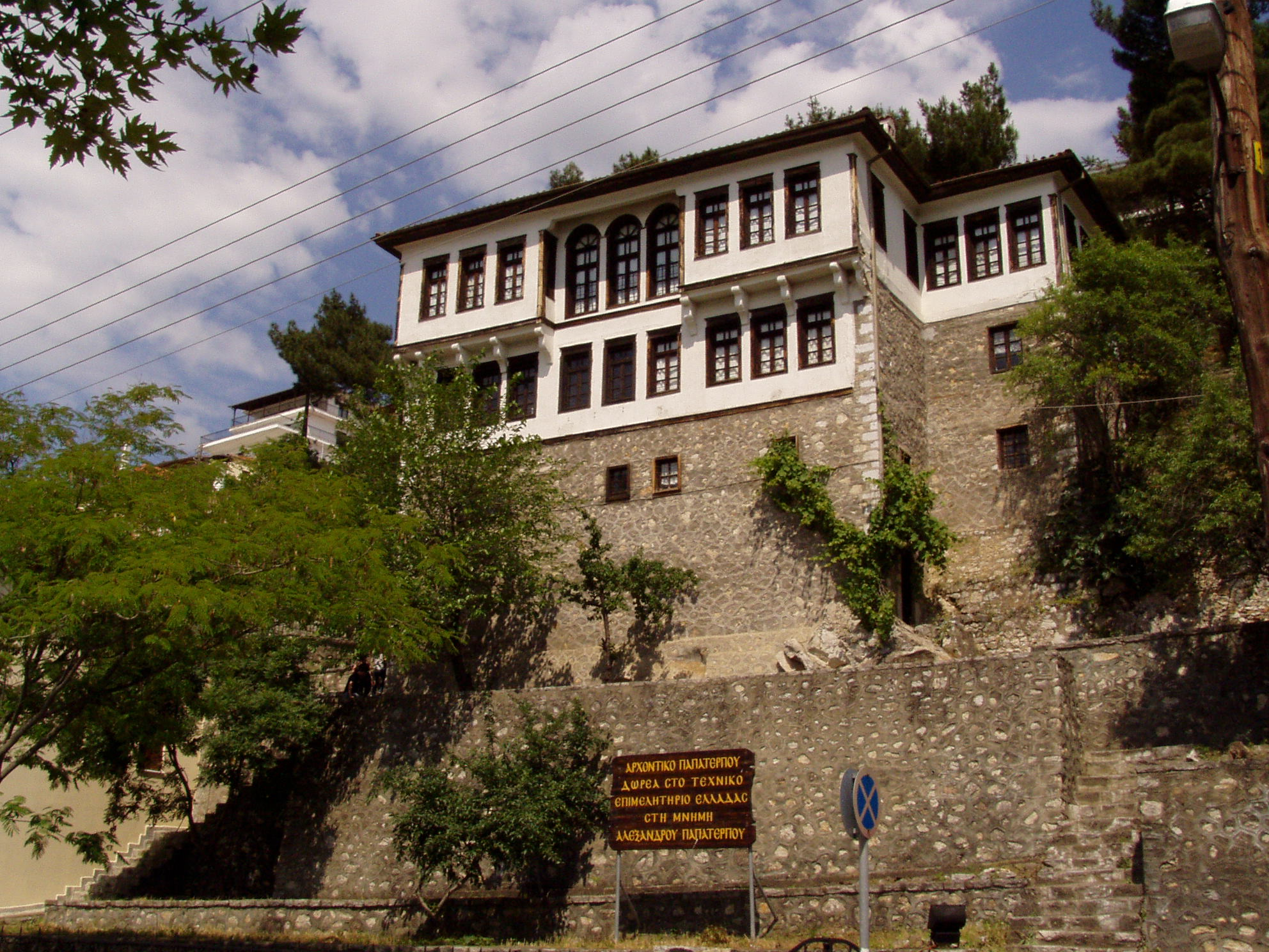 Beatifull building in Kastoria